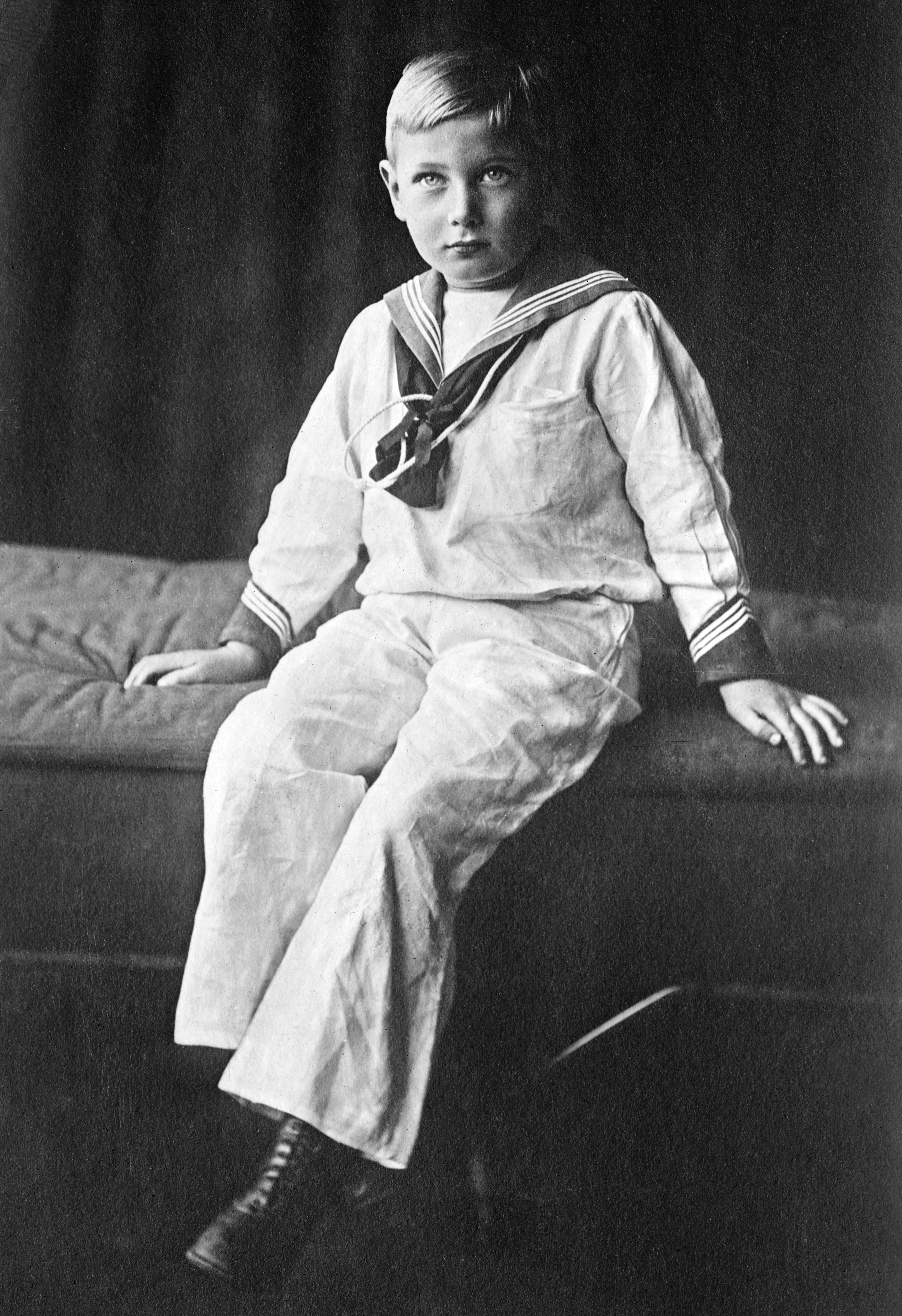 Prince John (1905–1919), photographer by G.G. Bain.